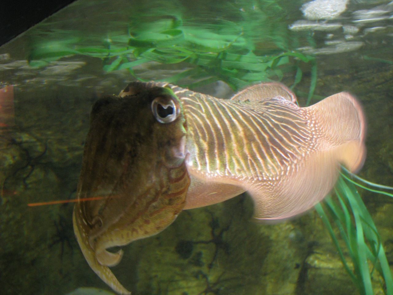 Adult Common Cuttlefisht Sepia officinalis